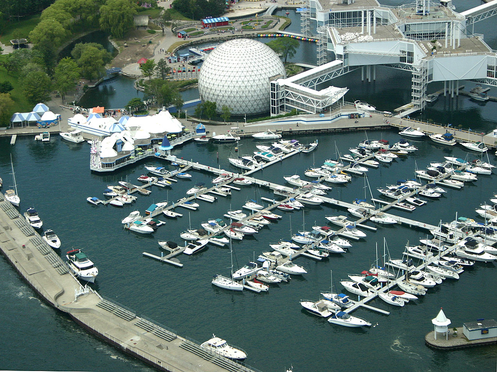 Aerial view of The Cinesphere and surrounding marina at Ontario Place, Toronto.